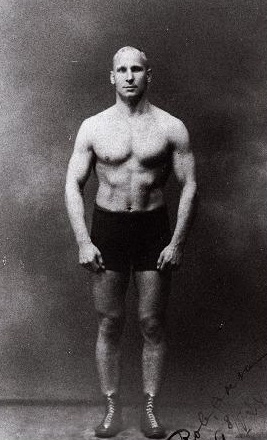 Finnish wrestler and wrestling instructor Robert Oksa (1893-1967) in 1924.